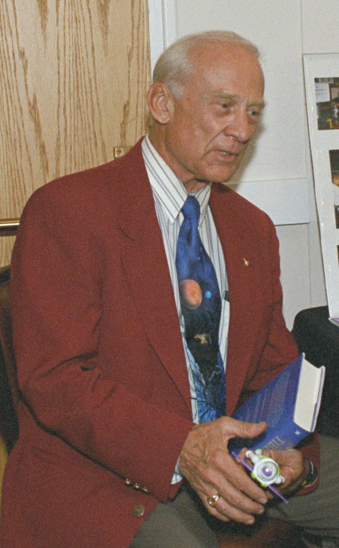 1996 'STELLAR' program commencement activities. Special guest Astronaut Buzz Aldrin drops by to tour and chat. Aldrin was attending his book signing at US Space Camp earlier in the day.